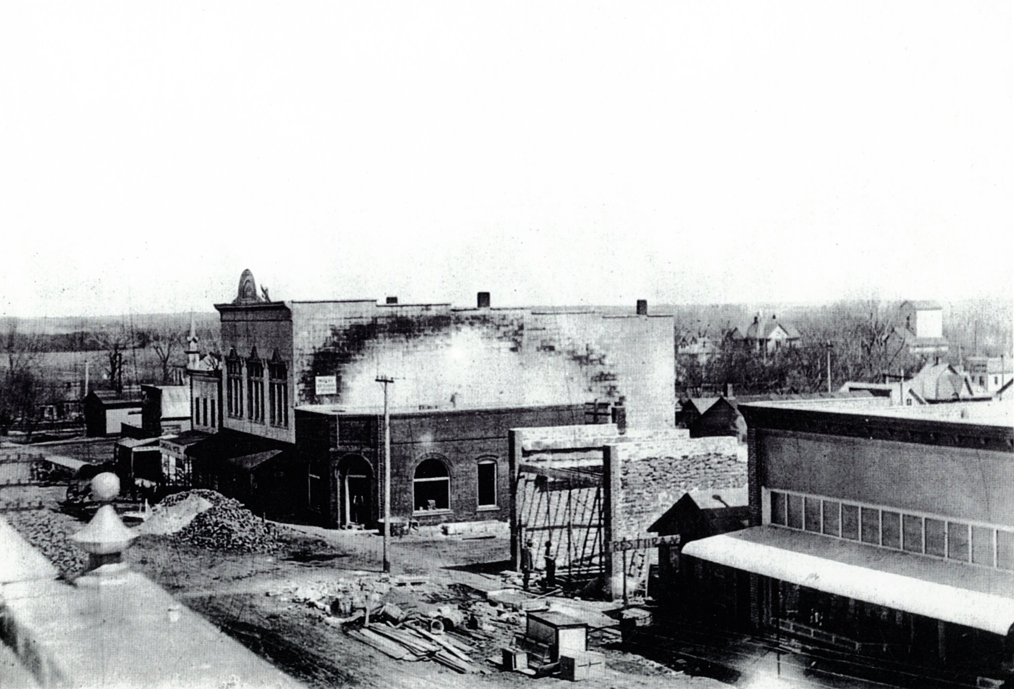 Jamestown, Kansas in the process of rebuilding after a fire in 1911. The Jamestown State Bank on the corner is nearlng completion. The Jamestown Opera House is the 2nd story building to the north of the bank. The opera house suvived the fire. Three towns had devastating downtown fires on the same night: Courtland, Jamestown & Glasco.